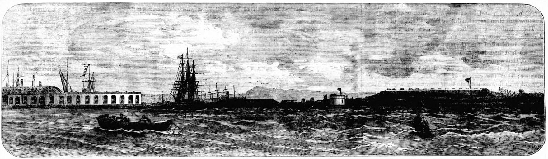 Forts at the mouth of the River Medway in 1870. L to R: Garrison Point Fort, Grain Tower, Grain Fort